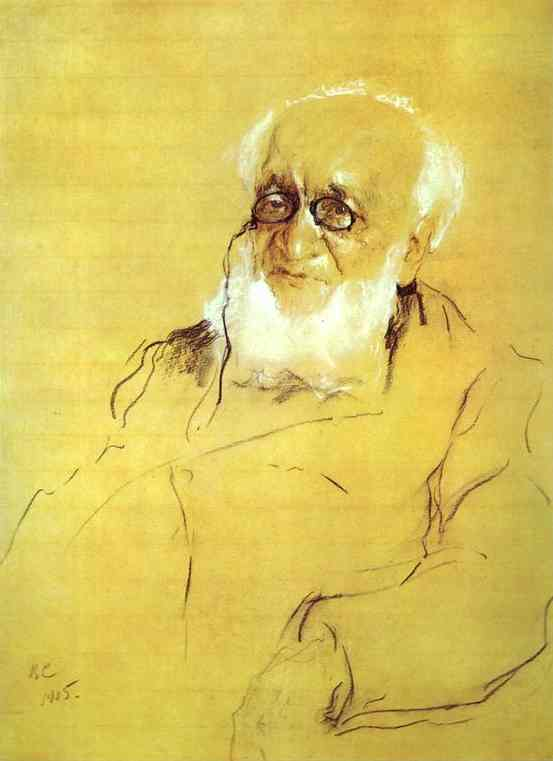 Portrait of P. Semenov-Tien-Shansky. 1905. Charcoal, color pencils, chalk on paper. The Russian Museum, St. Petersburg, Russia.